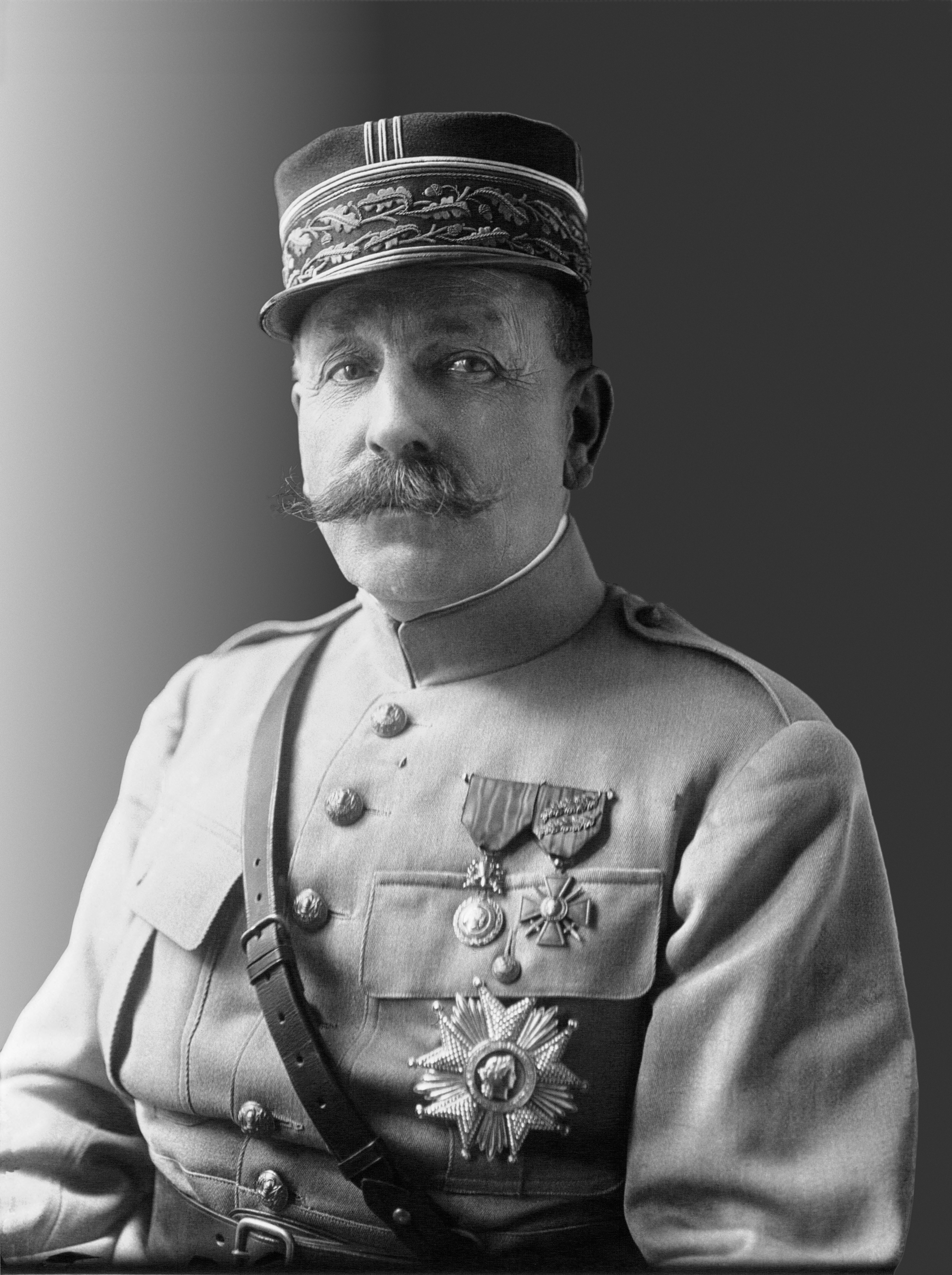 Augustin Dubail (1851 - 1934), french general